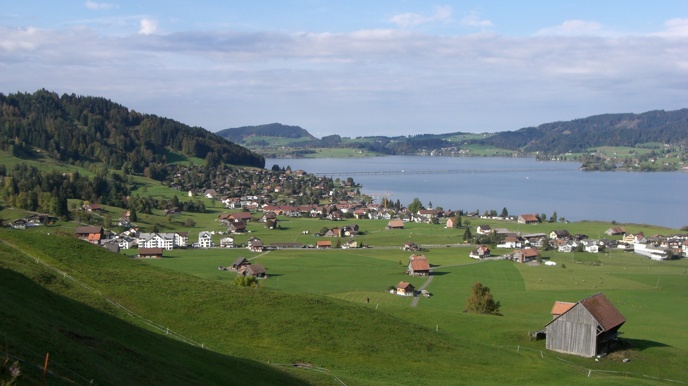 Gross (Canton of Schwyz, Switzerland)